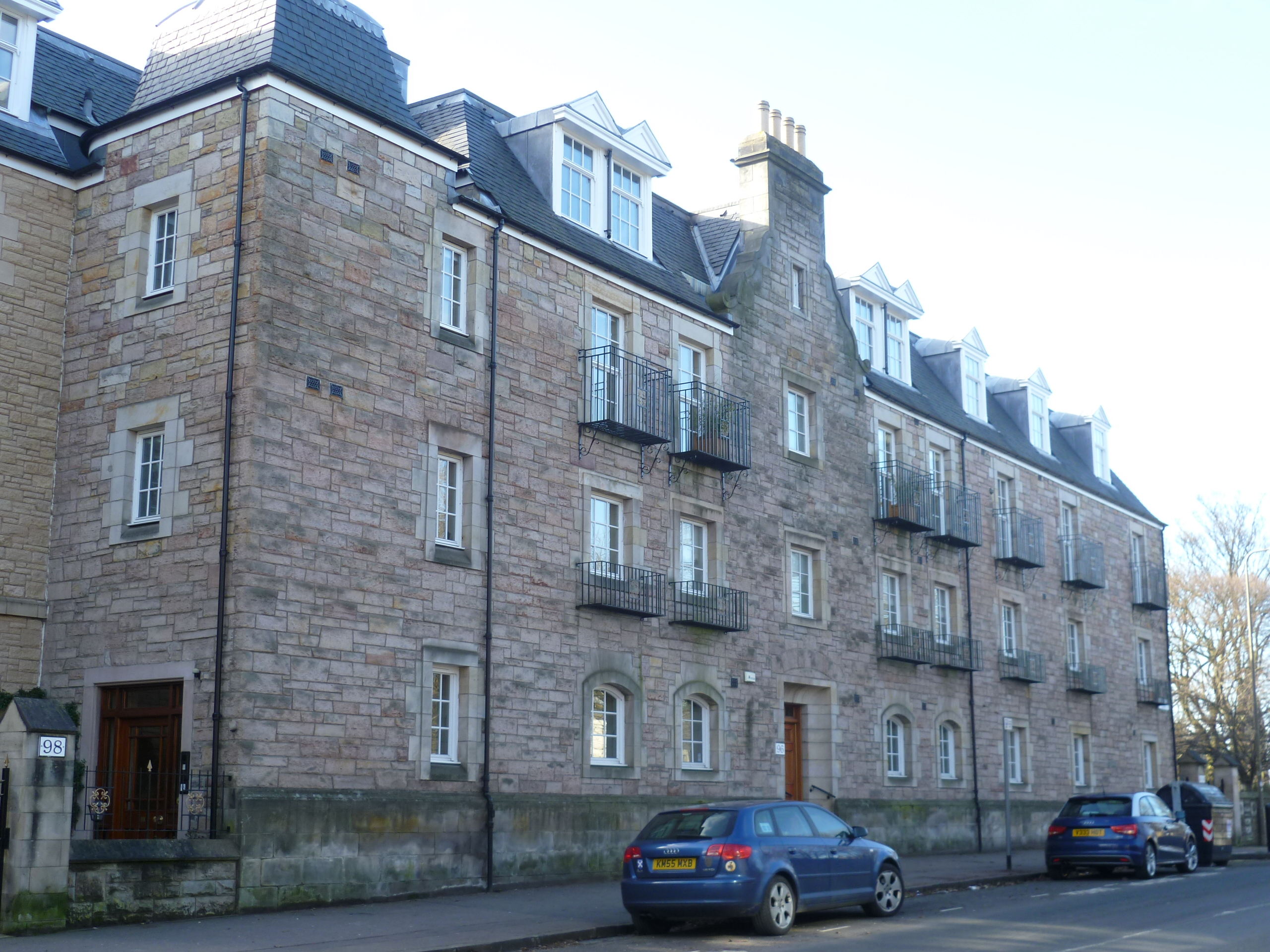 Former Bruntsfield Hospital, Whitehouse Loan, Edinburgh